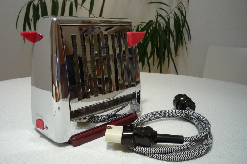 A Rowenta reversible toaster, approx. 1950s (with attachable connection cable)